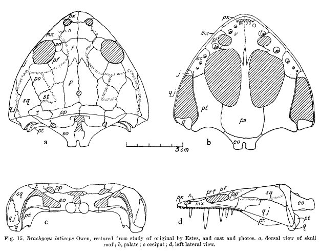 Drawing of skull of the Labyrinthodont, Brachyops laticeps.